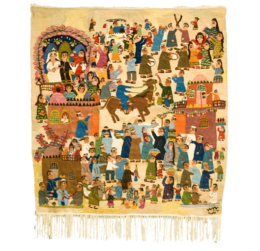 “Wedding in the Village” loom-woven tapestry in the permanent collection of The Children’s Museum of Indianapolis